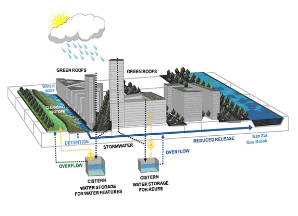 Tpark storm water recycle system